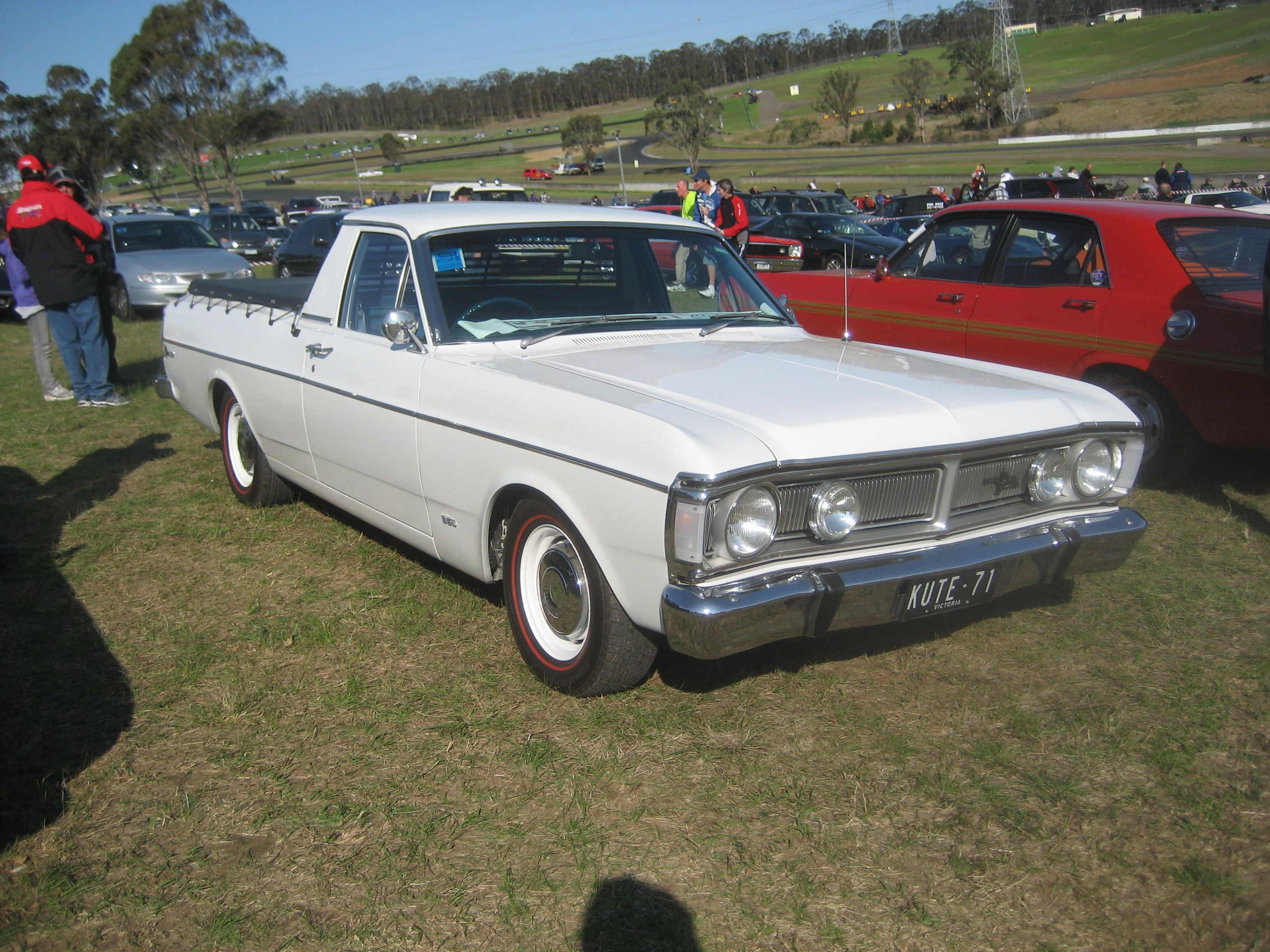 1971 Ford Falcon XY Utility. VIN: JG41LE72230C